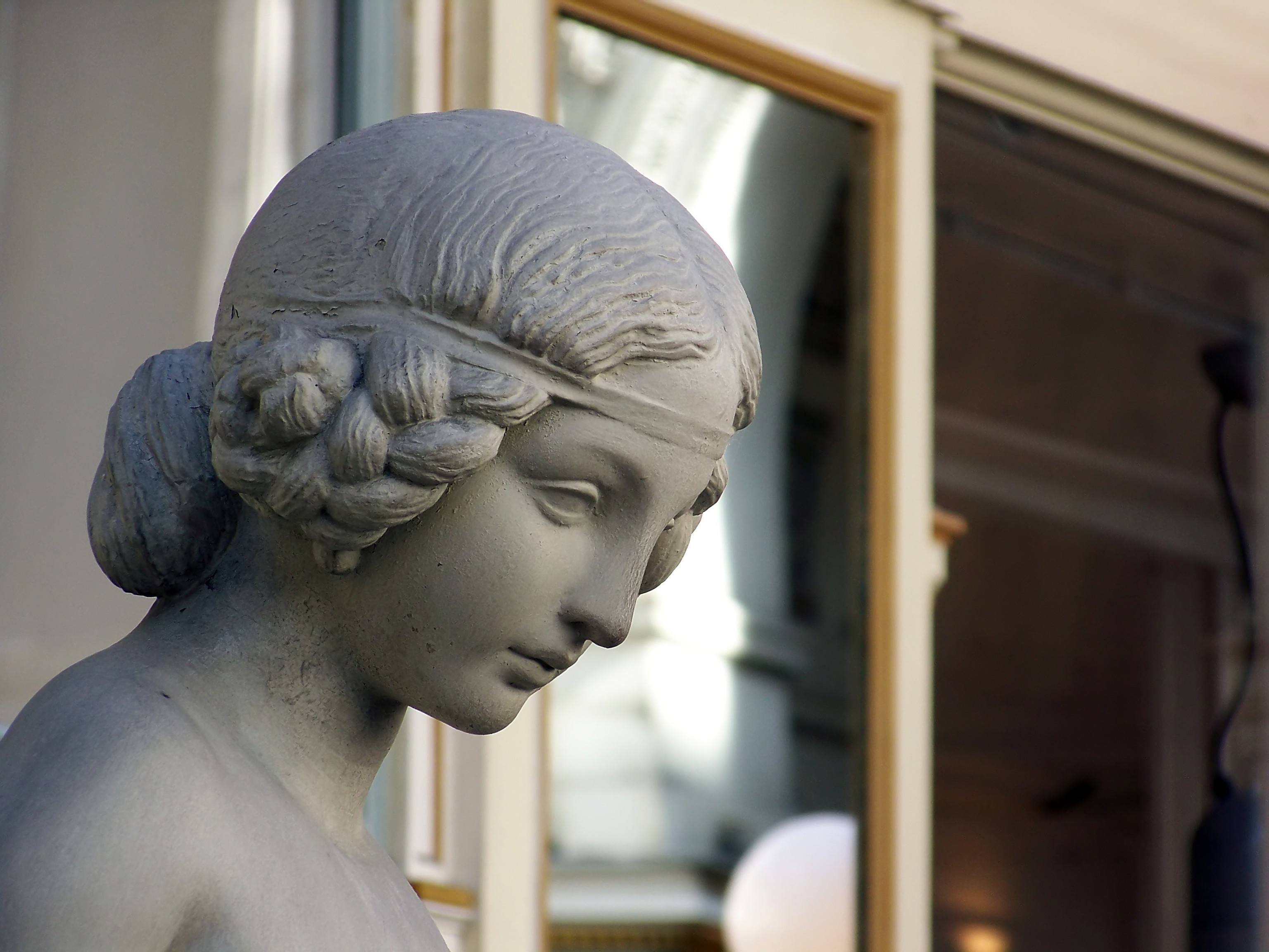 Statue of a young girl in the Passage Pommeraye in Nantes.